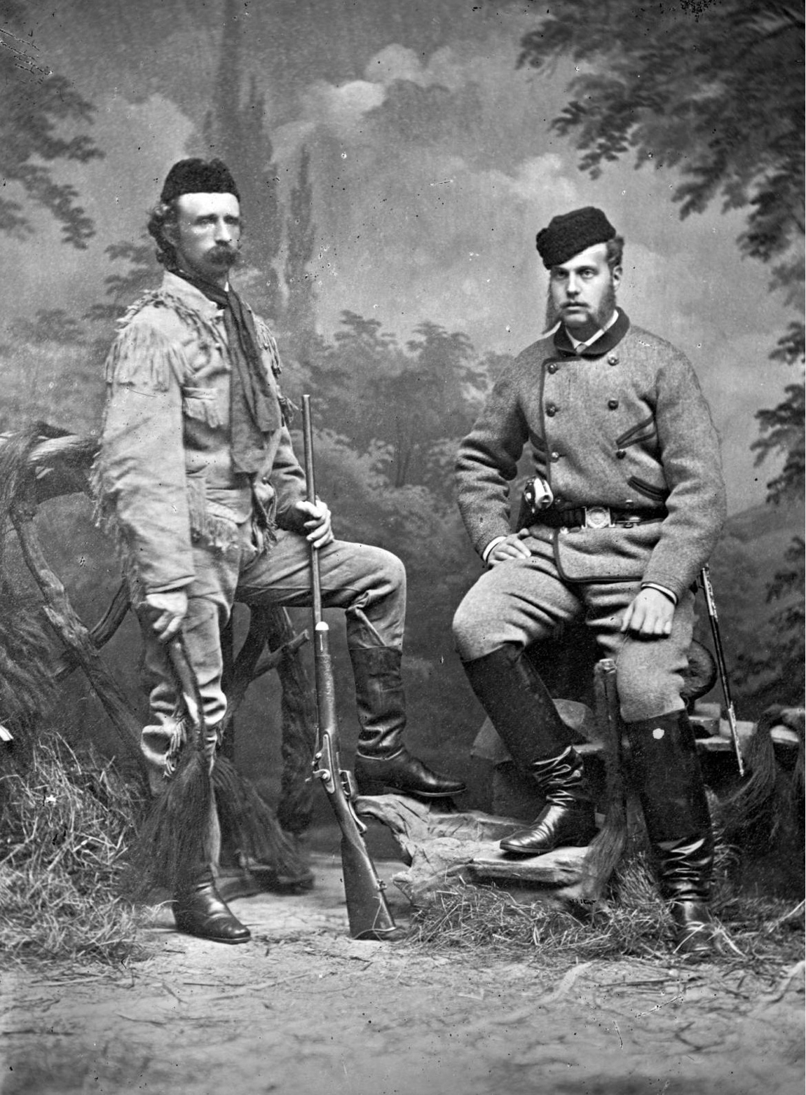 Photographic portrait of George Armstrong Custer posing with Grand Duke Alexei Alexandrovitch of Russia.